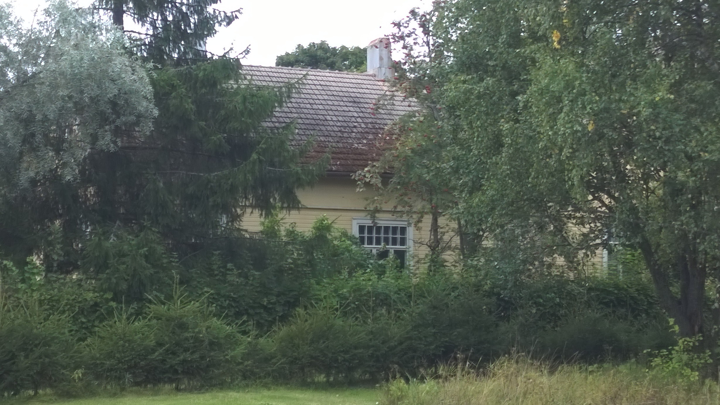 Former Verainen school, Lemu, Masku, Finland.